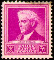 1940 Luther Burbank stamp